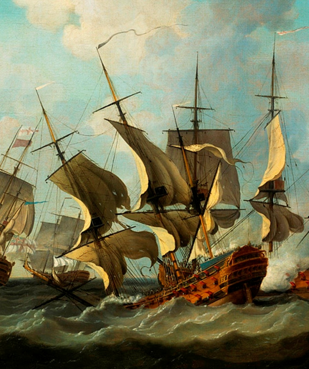 The Thésée ship sinking during the Battle of Quiberon in 1759. Detail from a painting by Richard Paton.